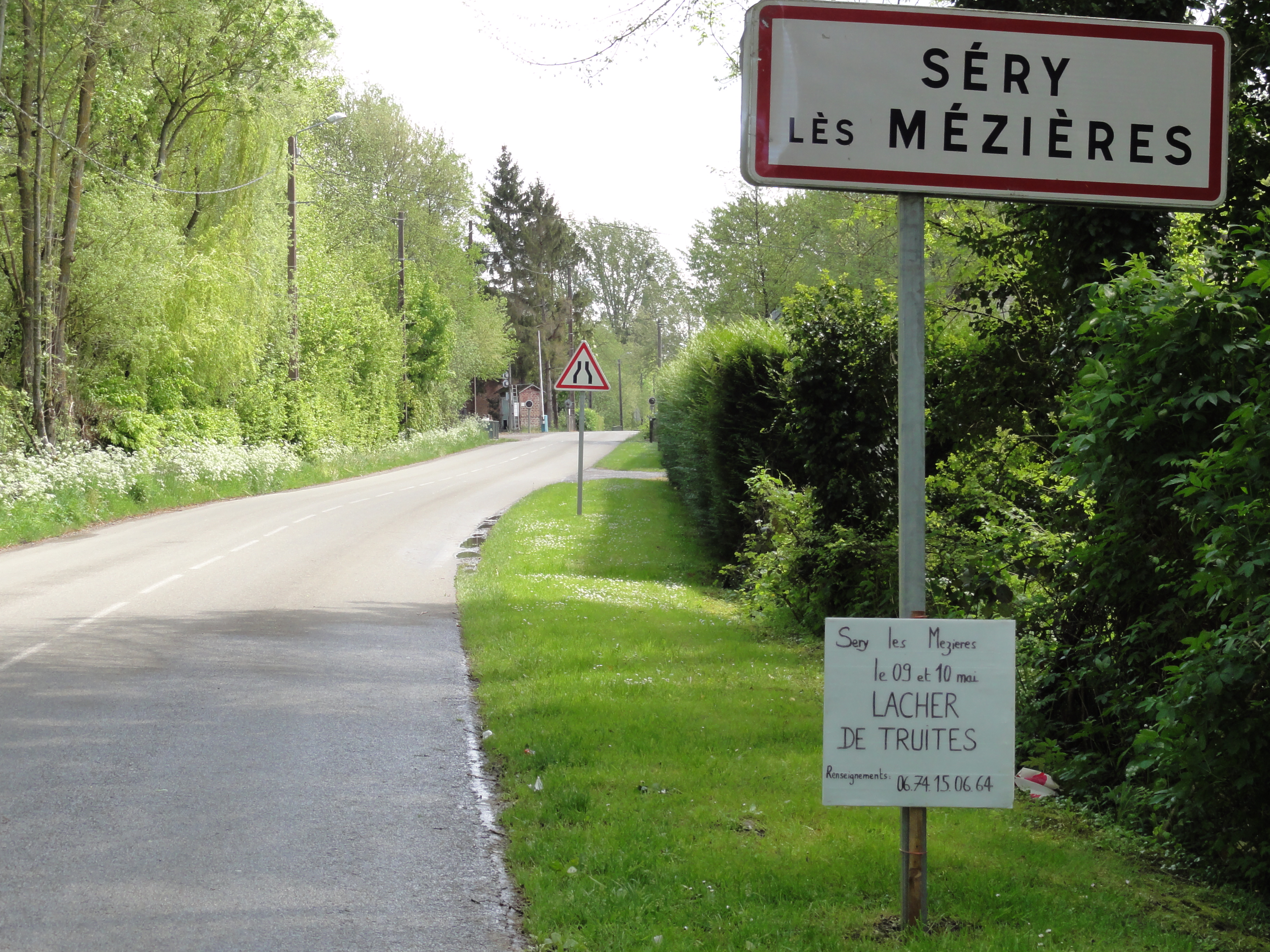 Séry-lès-Mézières (Aisne) city limit sign